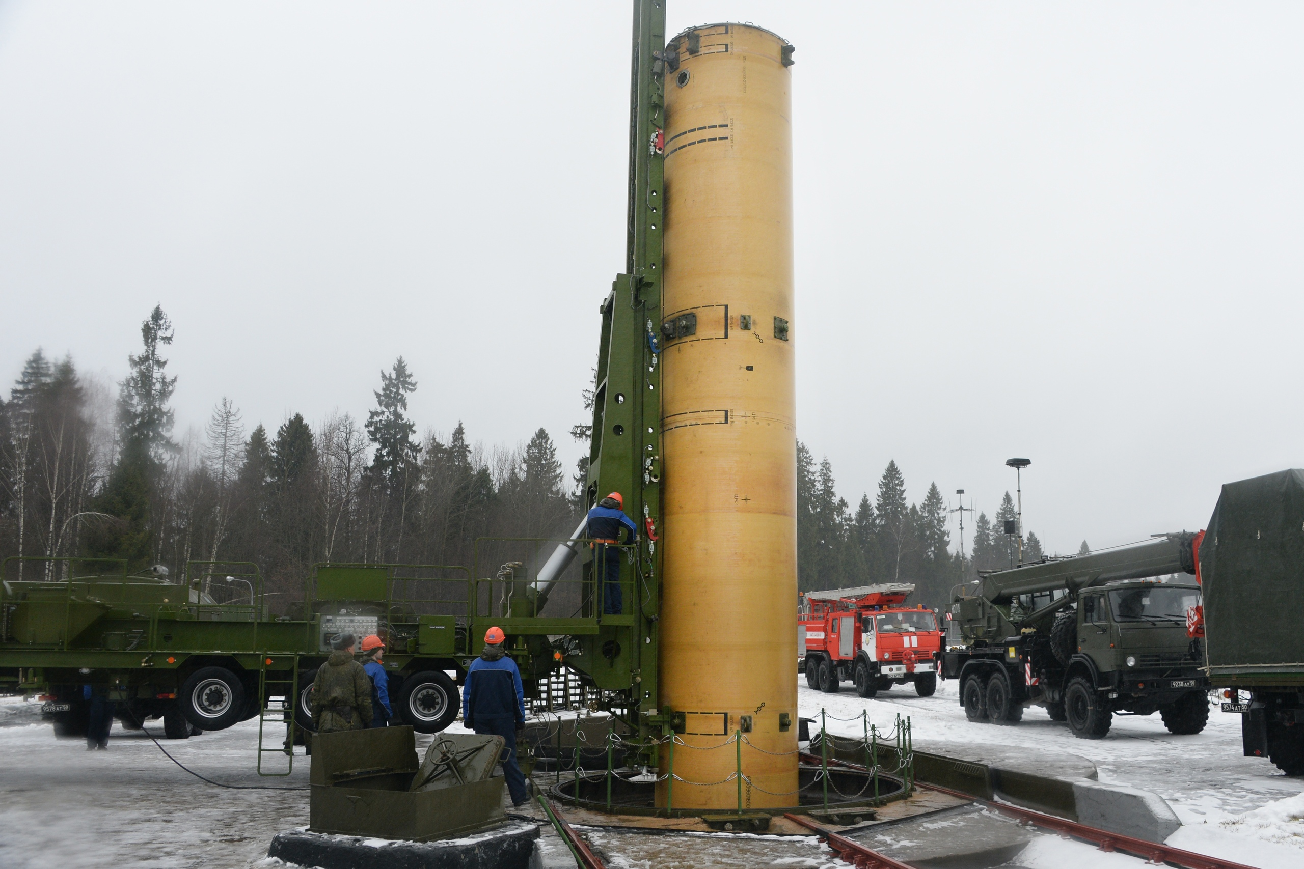 Russian the 9th Missile Defence Division in Moscow Oblast.